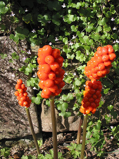 Jack in the Pulpit (Arisaema triphyllum) Very poisonous berries, if eaten raw, due to high levels of calcium oxate crystals. Is known by many different names. I'm used to seeing these in shady woods but this one is growing in a sunny position next to a B road.